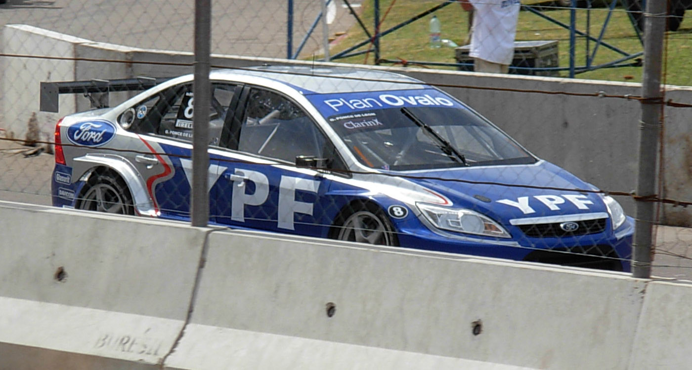 Gabriel Ponce de León's #8 TC2000 Ford Focus at the 2010 Punta del Este Grand Prix.